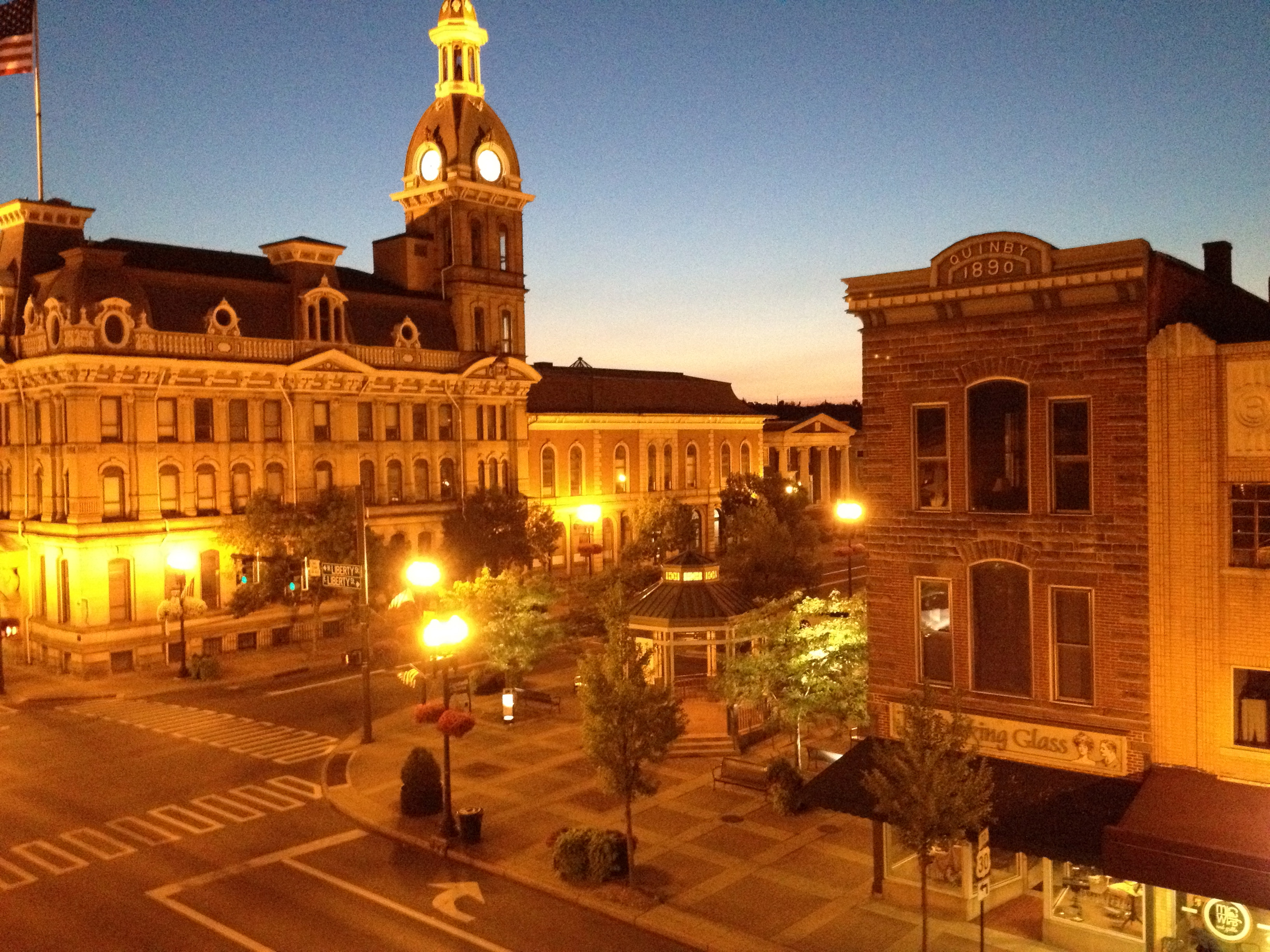 Taken from a building on Liberty St, this photo overlooks downtown Wooster, Ohio.